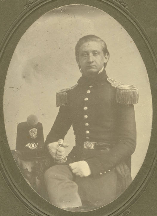 Owen Kenan McLemore, 8th U.S. Infantry; During the Civil War, McLemore served as a major of the 14th Alabama Infantry, C.S.A., and as a lieutenant colonel of the 4th Alabama Infantry, C.S.A.; He was killed at Boonsboro in Maryland, Alabama Department of Archives and History